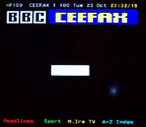 This captures the final second of the BBC analogue CEEFAX information service which ran from 1974 to 2012